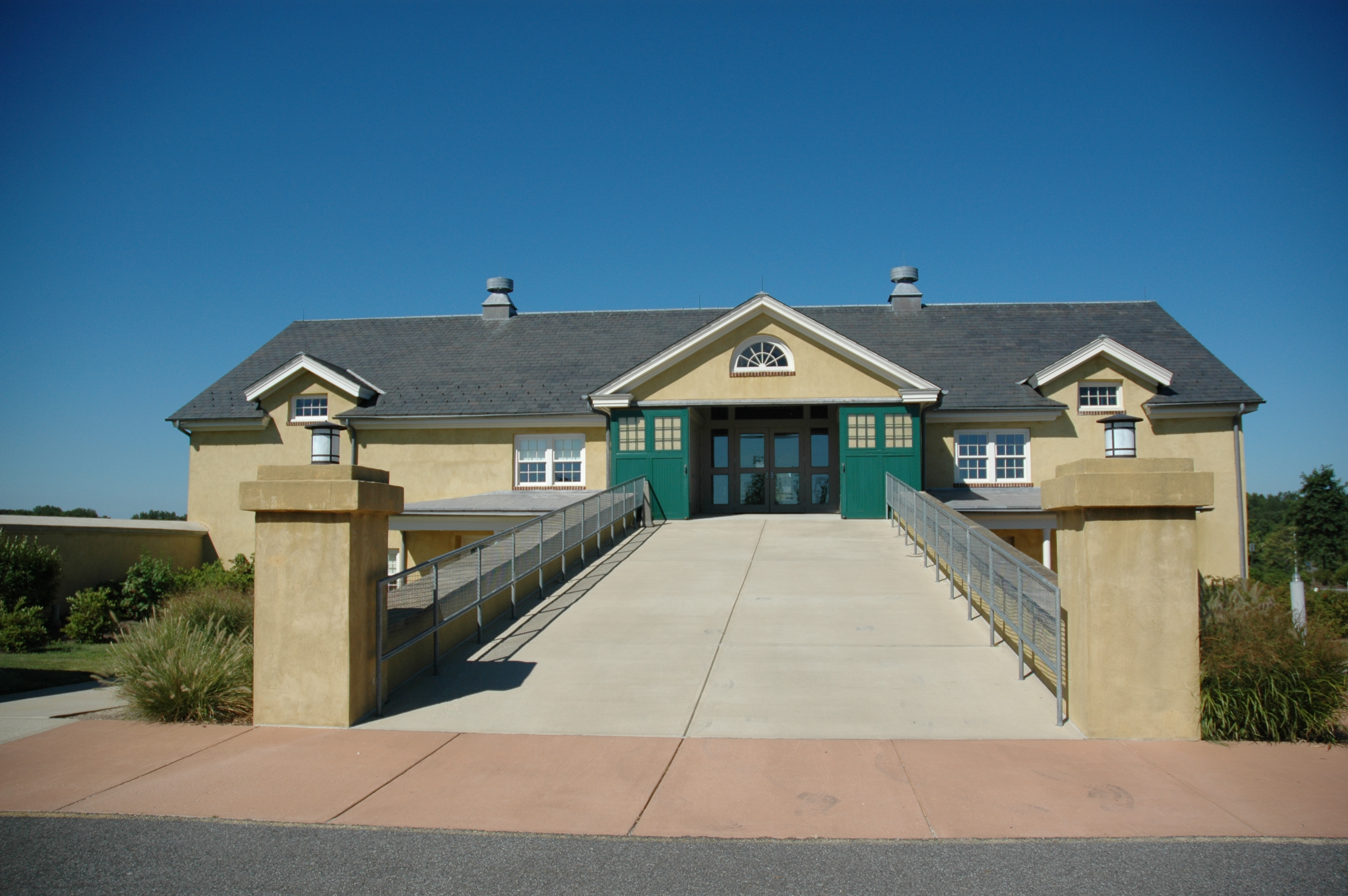 The blueball dairy barn that supplied milk to the DuPont Nemours estate in Wilmington, Delaware